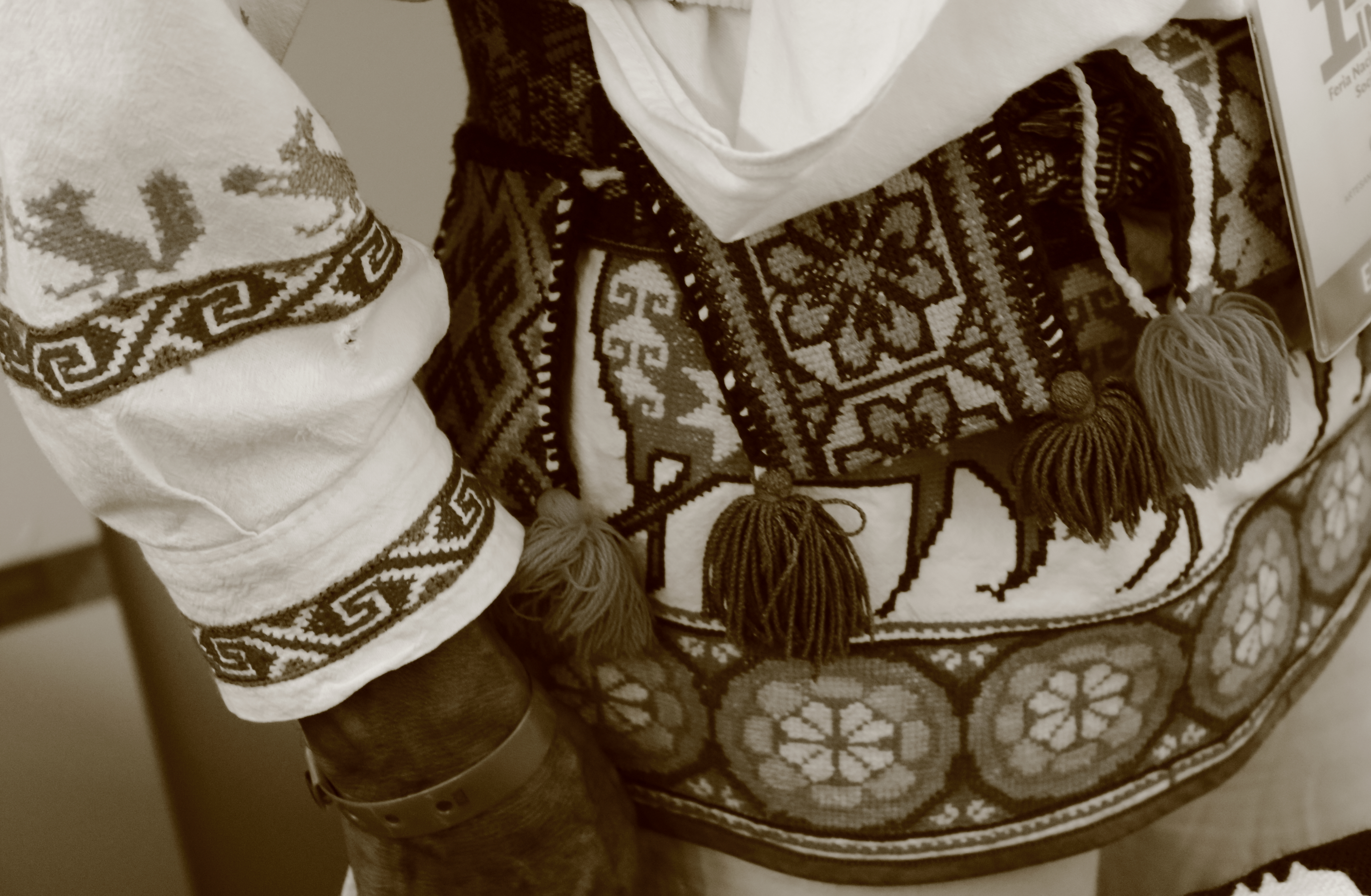 Traditional clothing of Nayarit, Mexico